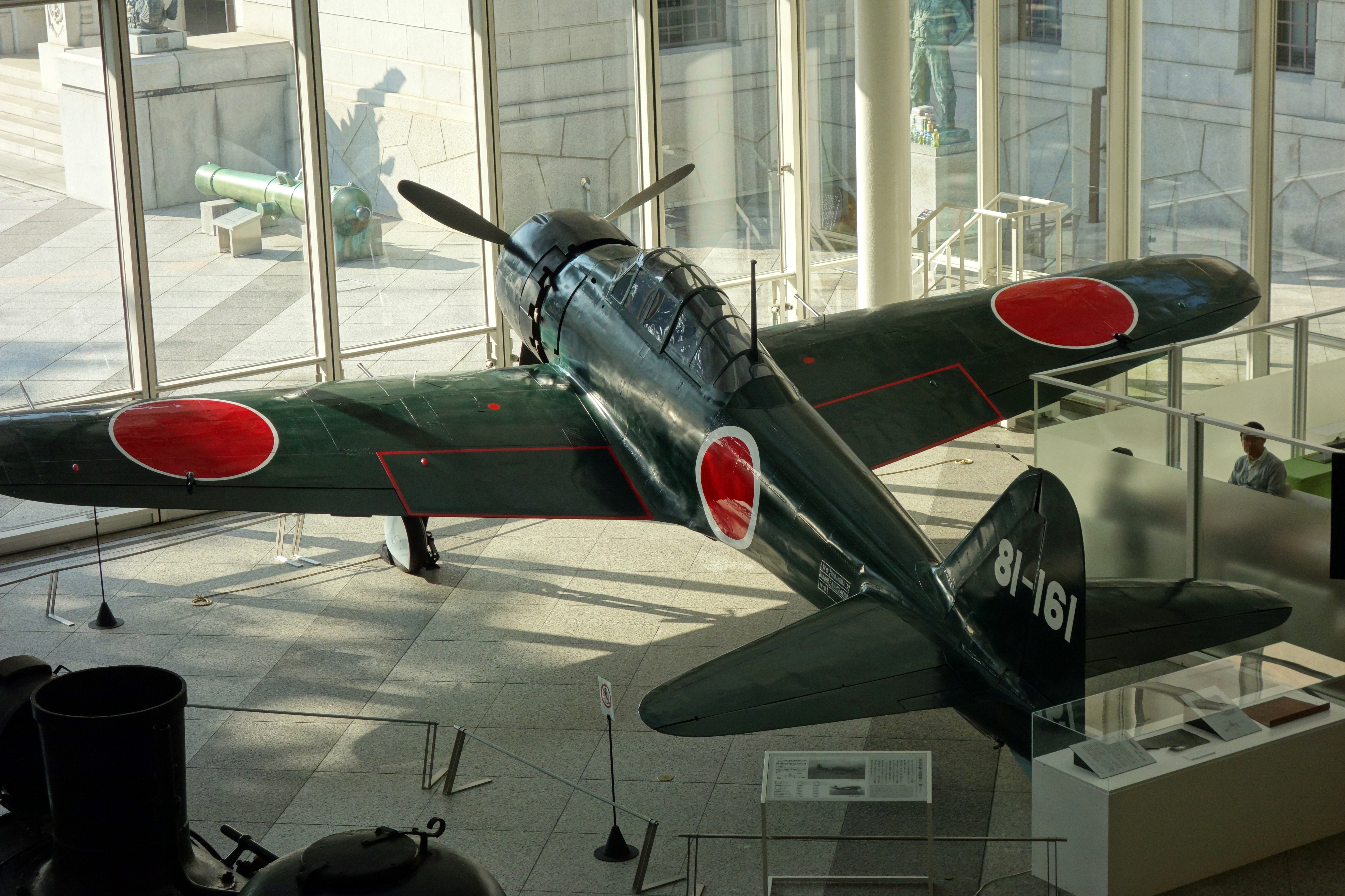 Mitsubishi A6M5 Zero (Model 52) fighter on display at Yūshūkan.